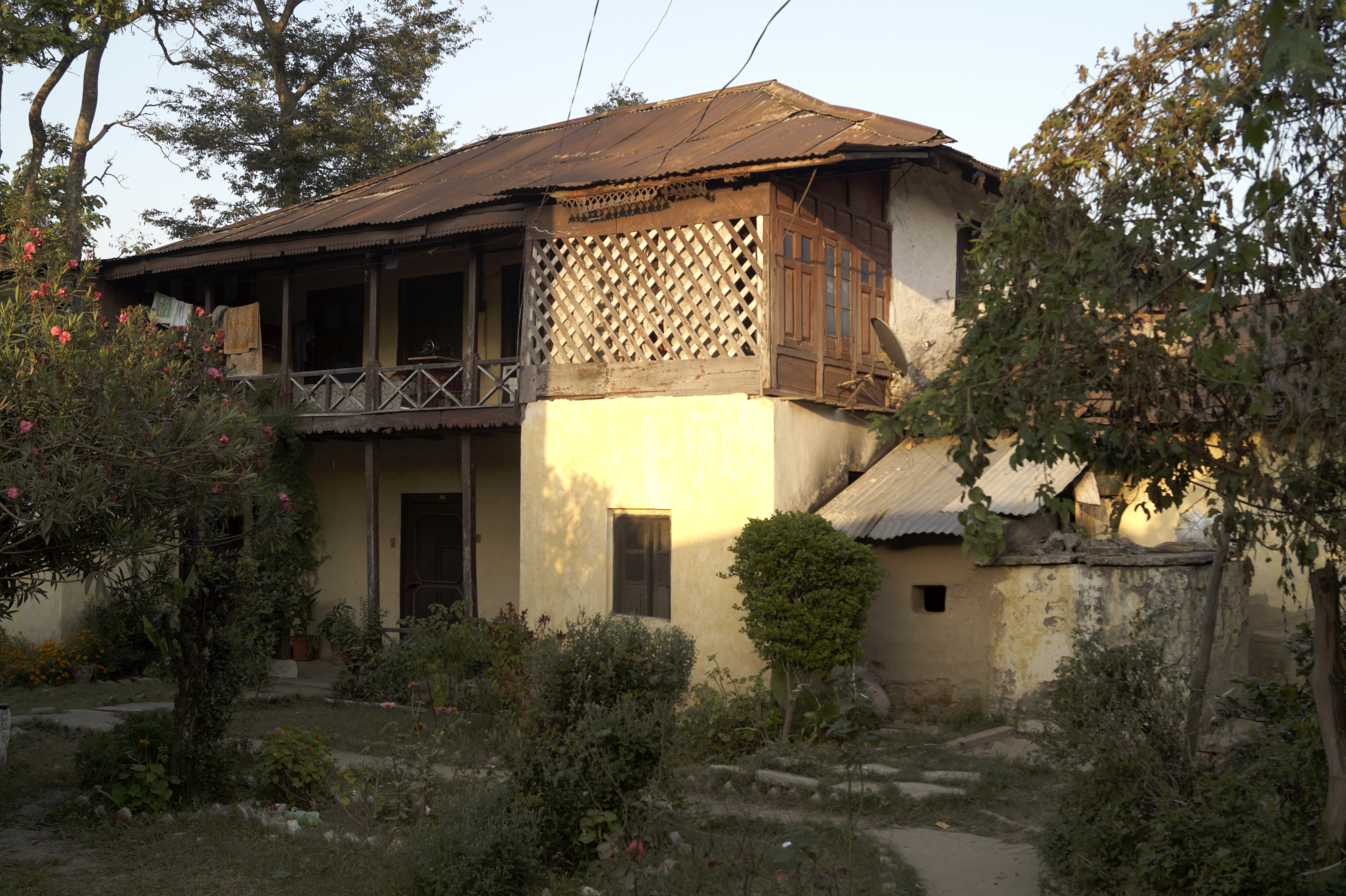 Palace of Kunihar Princely State, Himachal Prades India